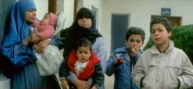 Photo of Omar Khadr, copyright released into the public domain by the Khadr family in Toronto.